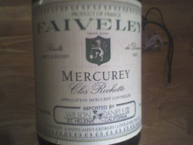 White Burgundy wine from the Cote Chalonnaise region of Mercurey